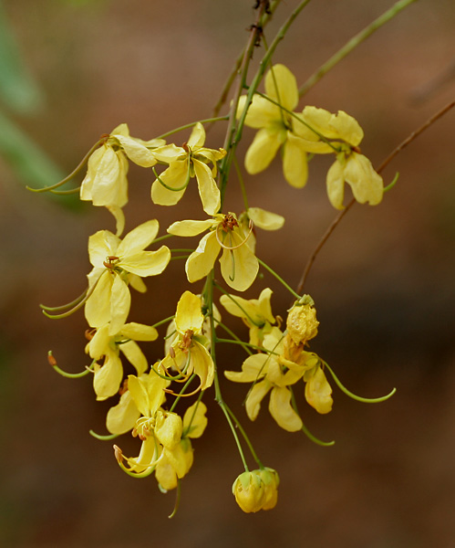 Amaltas Cassia fistula in Hyderabad , India.